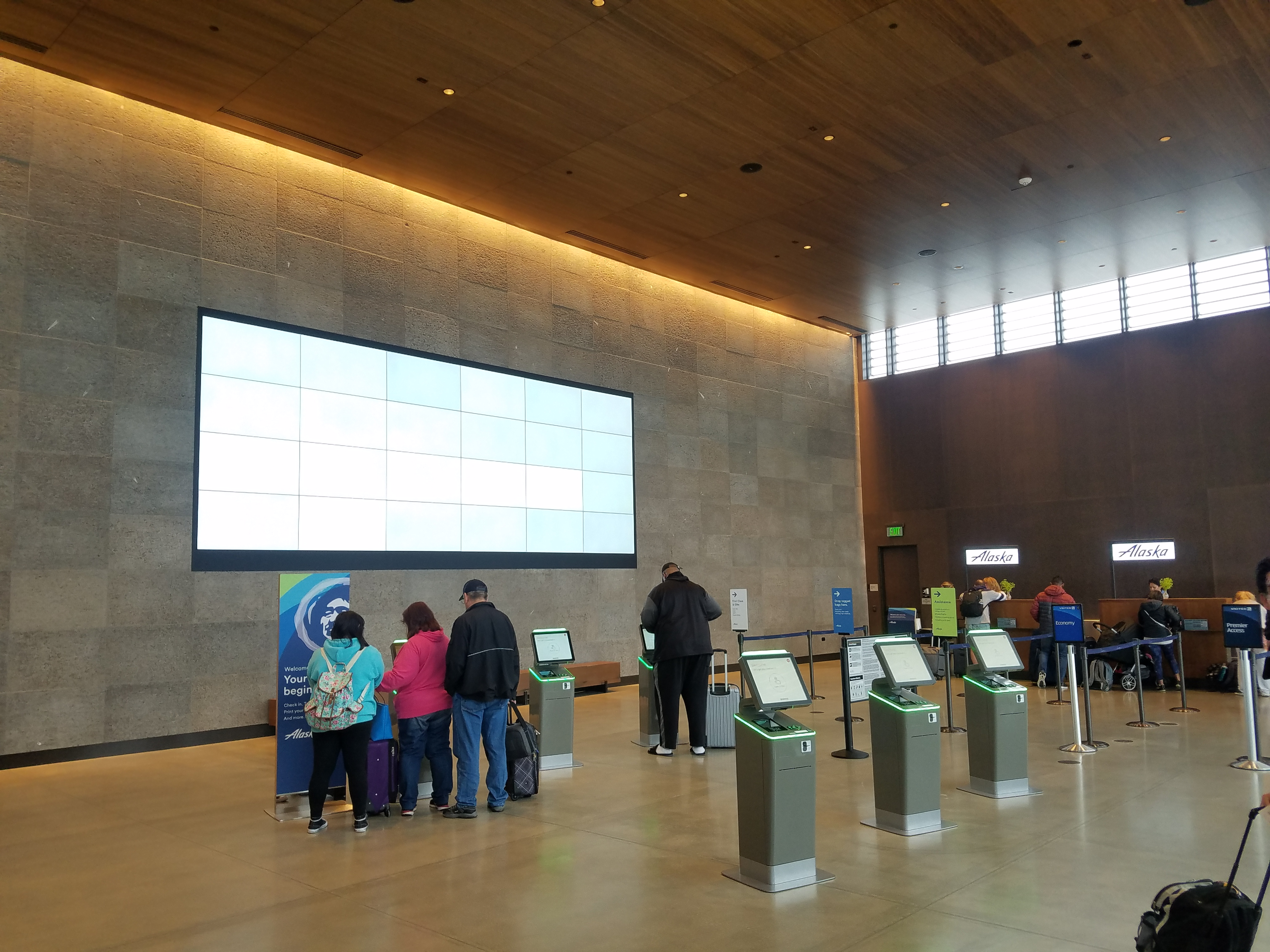 View inside the passenger terminal at Paine Field (Snohomish County Airport) in Everett, WA, USA, newly opened in 2019.